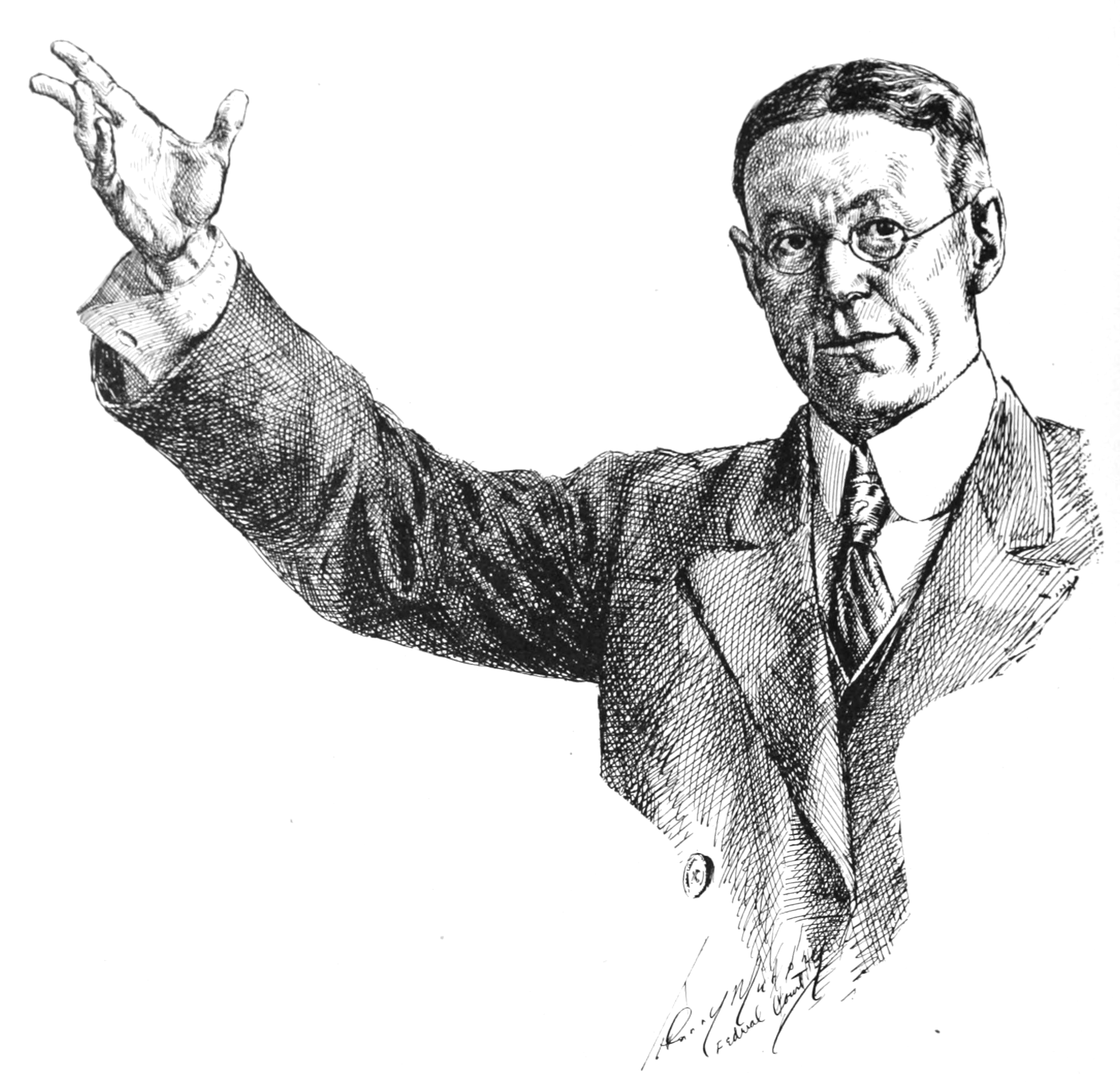 Francis Heney, as depicted in Looters of the Public Domain by Puter and Stevens, 1908